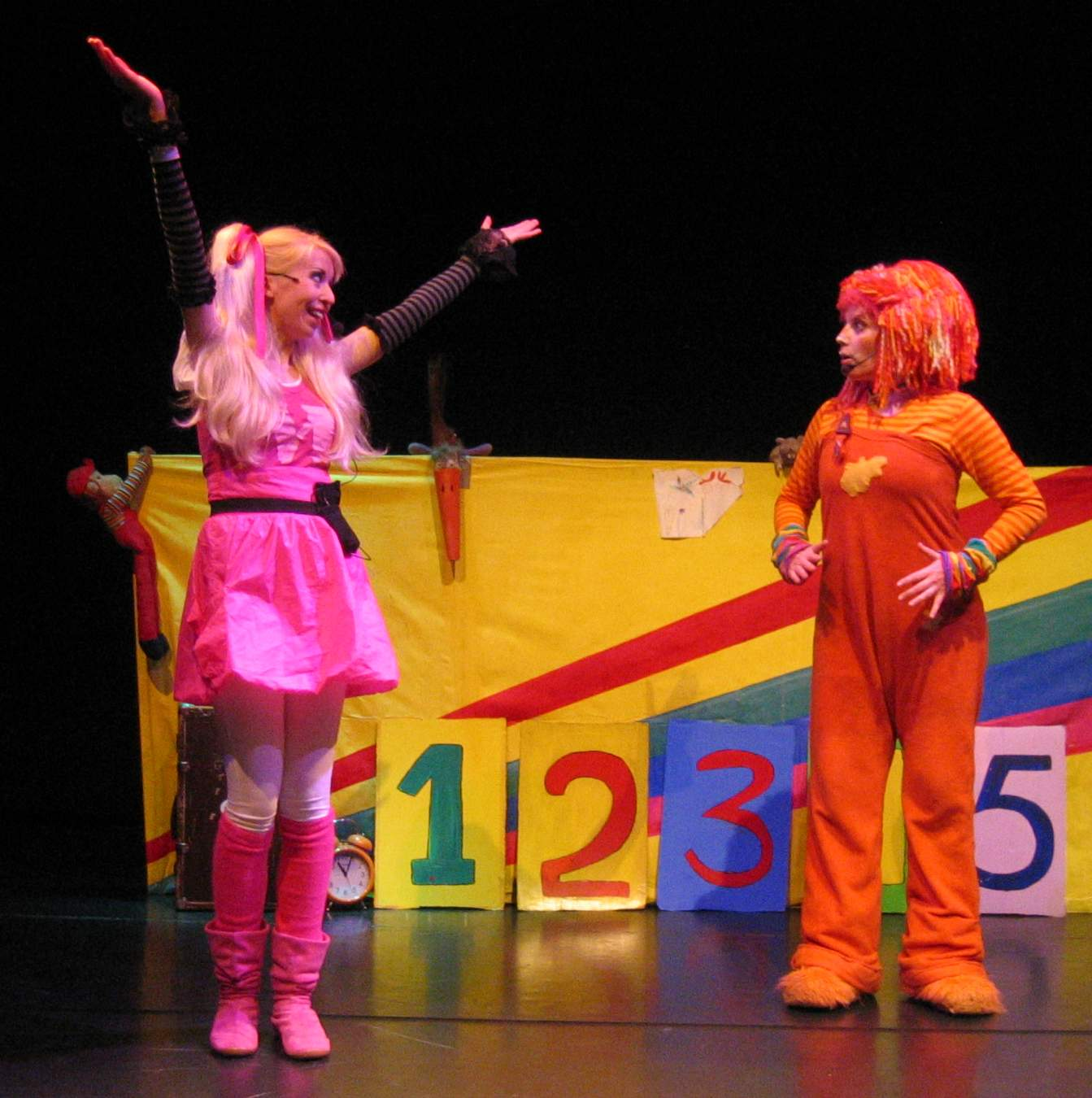 Mimi ja Kuku childrens' musical theatre duo performing in Seikkailupuisto park, Turku, Finland. The girl on the left is Mimi, Kuku the lion is on the right.